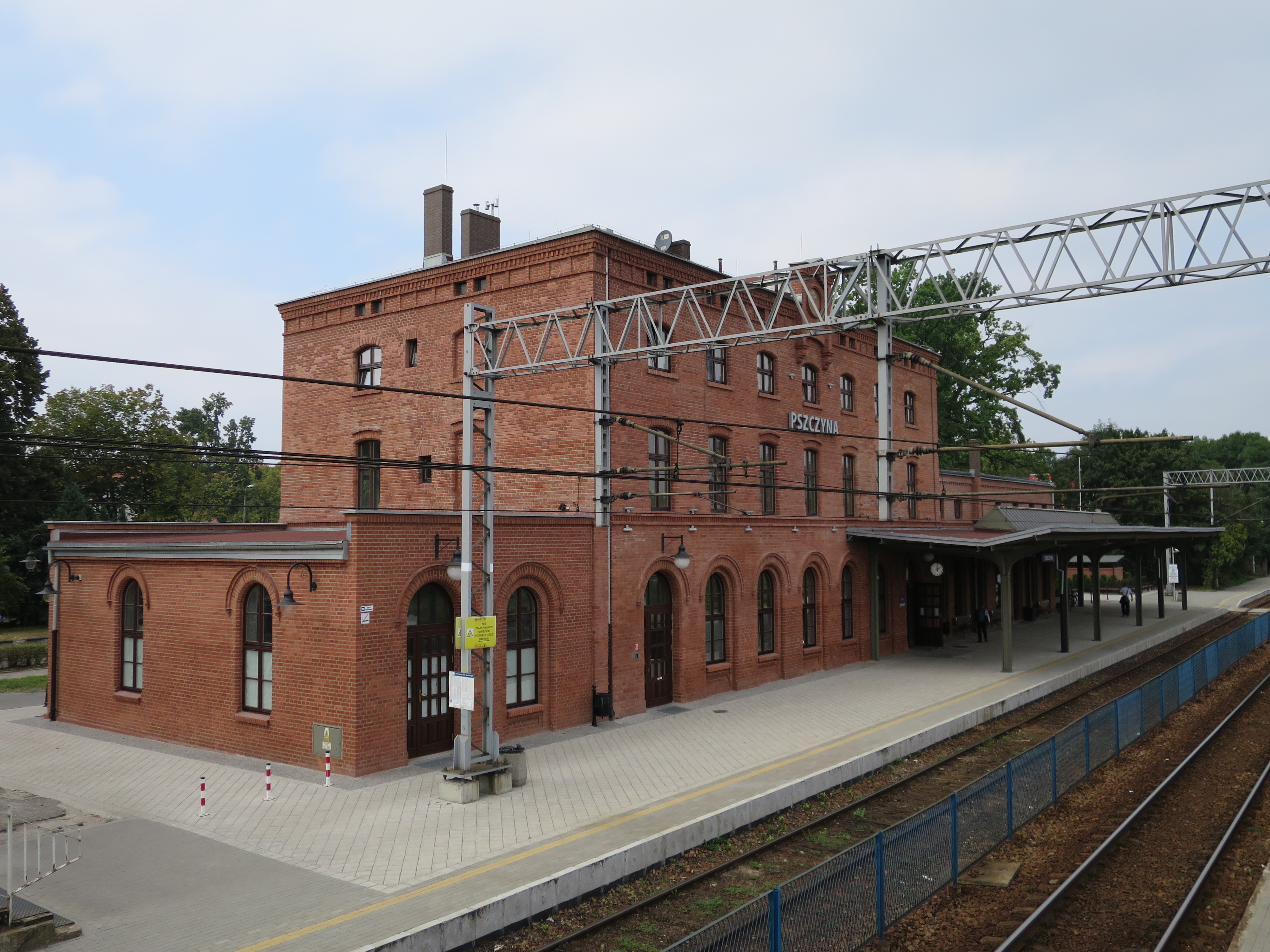 Dworzec w Pszczynie This photo was taken during Railway Wikiexpedition 2015 set up by Wikimedia Polska Association in cooperation with Fundacja Grupy PKP. You can see all photographs in category Wikiekspedycja kolejowa 2015.